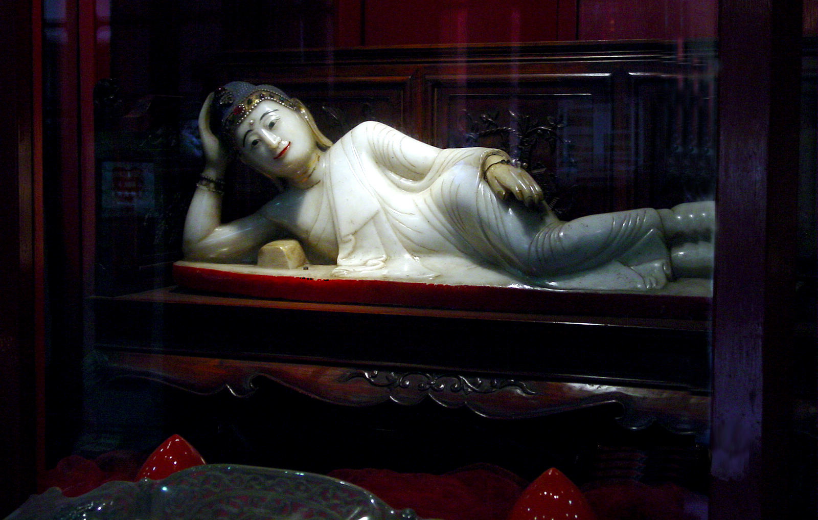 A reclining Buddha at the Jade Buddha Temple in Shanghai China